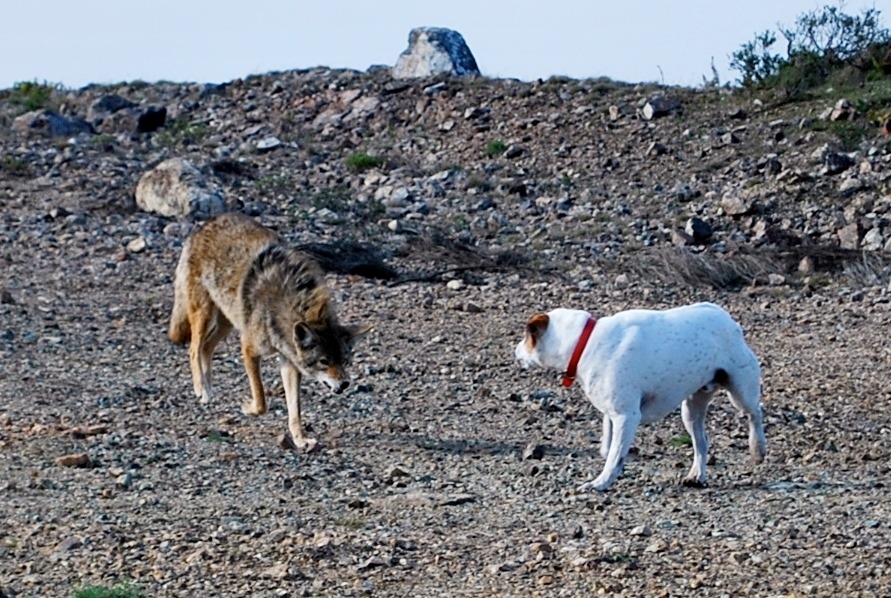 Coyote and mixed breed rescue dog.